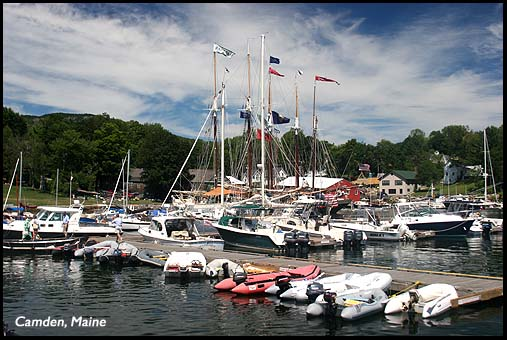 Camden, Maine Image made (2005) by Robert Swanson